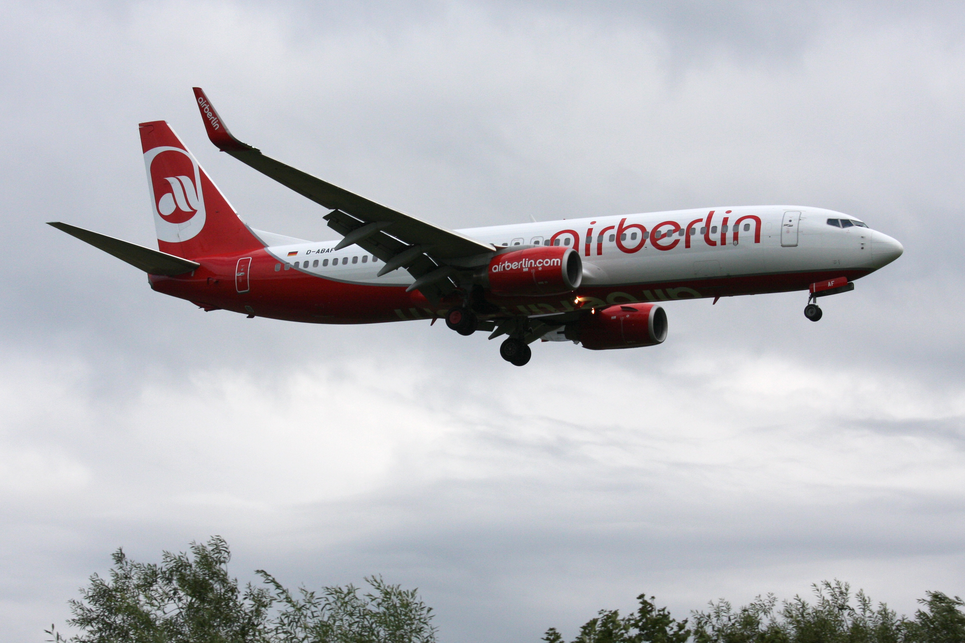 A Boeing 737-800 of Air Berlin on final into Münster Osnabrück International Airport.